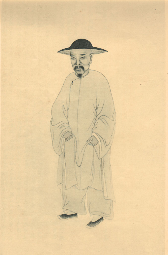 Zhu Yizun, scholar of the Qing Dynasty.